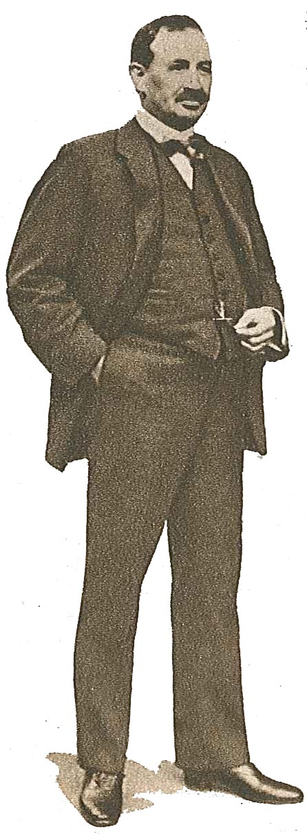 Hjalmar Tornblad (1867-1937), Swedish hotel owner and donor.